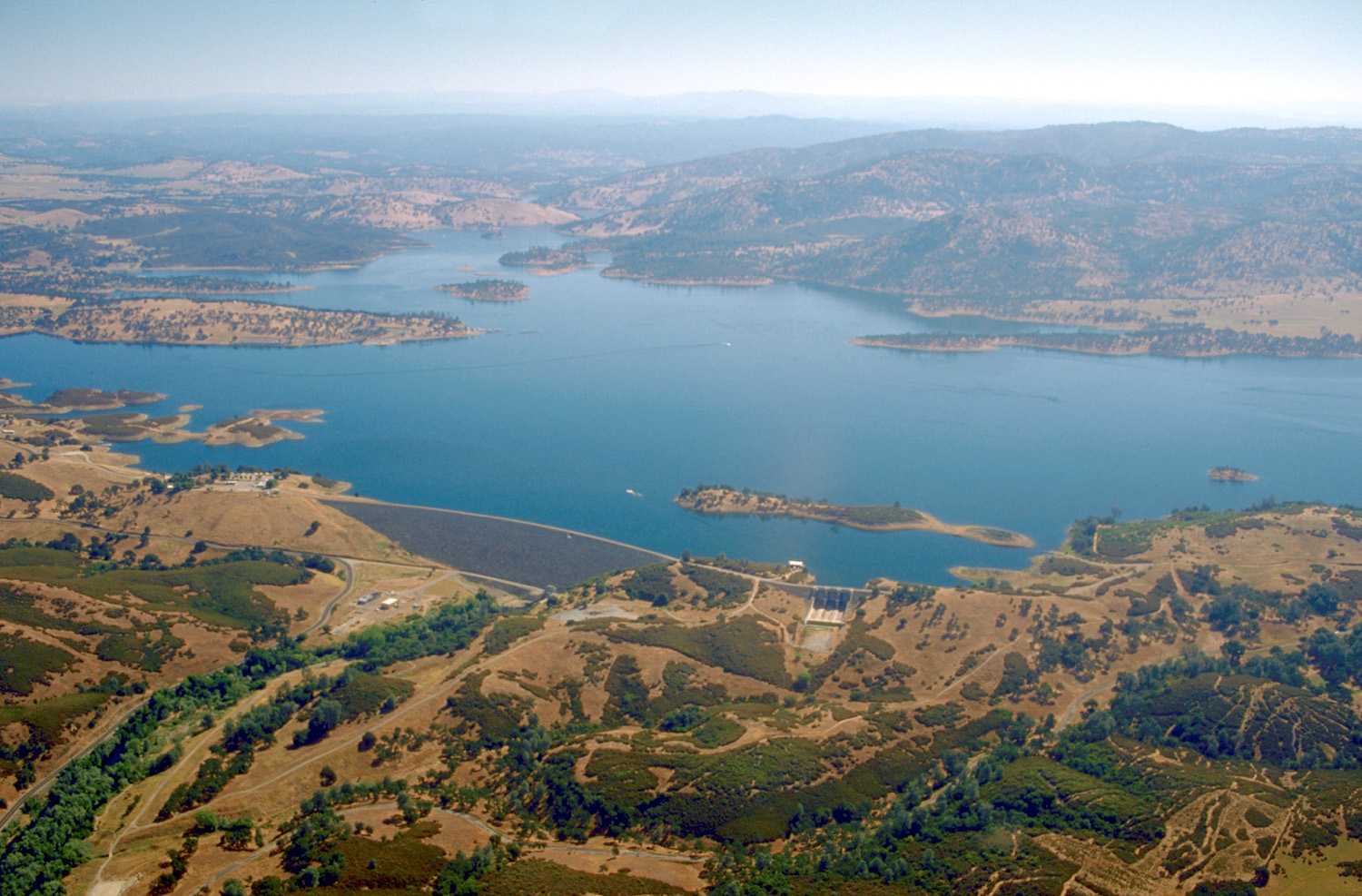 Aerial view (to the northeast) of New Hogan Lake and New Hogan Dam — on the Calaveras River in Calaveras County, California. The dam is located in the Sierra Nevada foothills, about 30 miles (48 km) northeast of Stockton, California. The dam was constructed in 1963 by the U.S. Army Corps of Engineers for flood control and hydroelectric power production on the Calaveras River. Coordinates: 38°9′2.24″N 120°48′48.82″W / 38.1506222°N 120.8135611°W